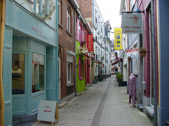 Rue de la Source, street in Wavre centre, Wallon Brabant, Belgium